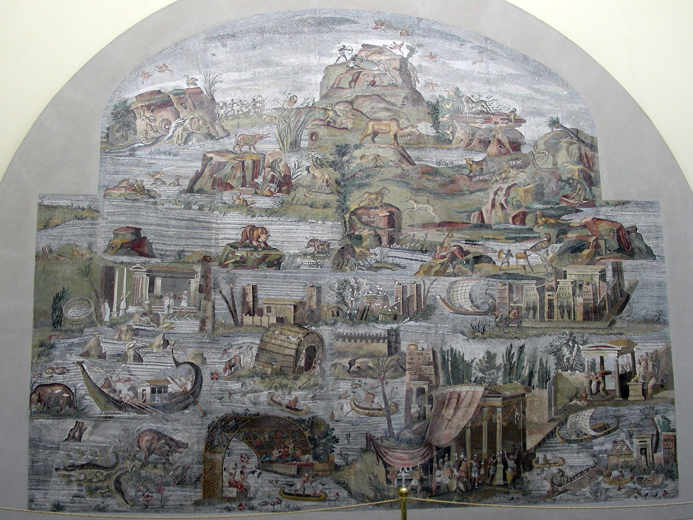 Italy, Latium, Rome's province, Palestrina, Museo archeologico prenestino, Nile Mosaic